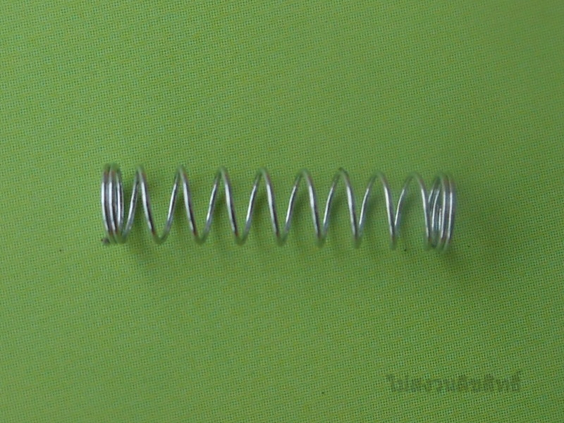 Winter summer stretch Old ring.